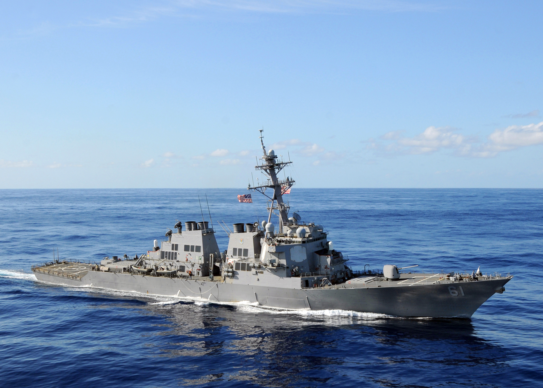 ATLANTIC OCEAN (Sept. 6, 2008) The guided-missile destroyer USS Ramage (DDG 61) transits the Atlantic Ocean. Ramage is deployed as part of the Iwo Jima Expeditionary Strike Group supporting maritime security operations in the U.S. 5th and 6th Fleet areas of responsibility. (U.S. Navy photo by Mass Communication Specialist 2nd Class Jason R. Zalasky/Released)